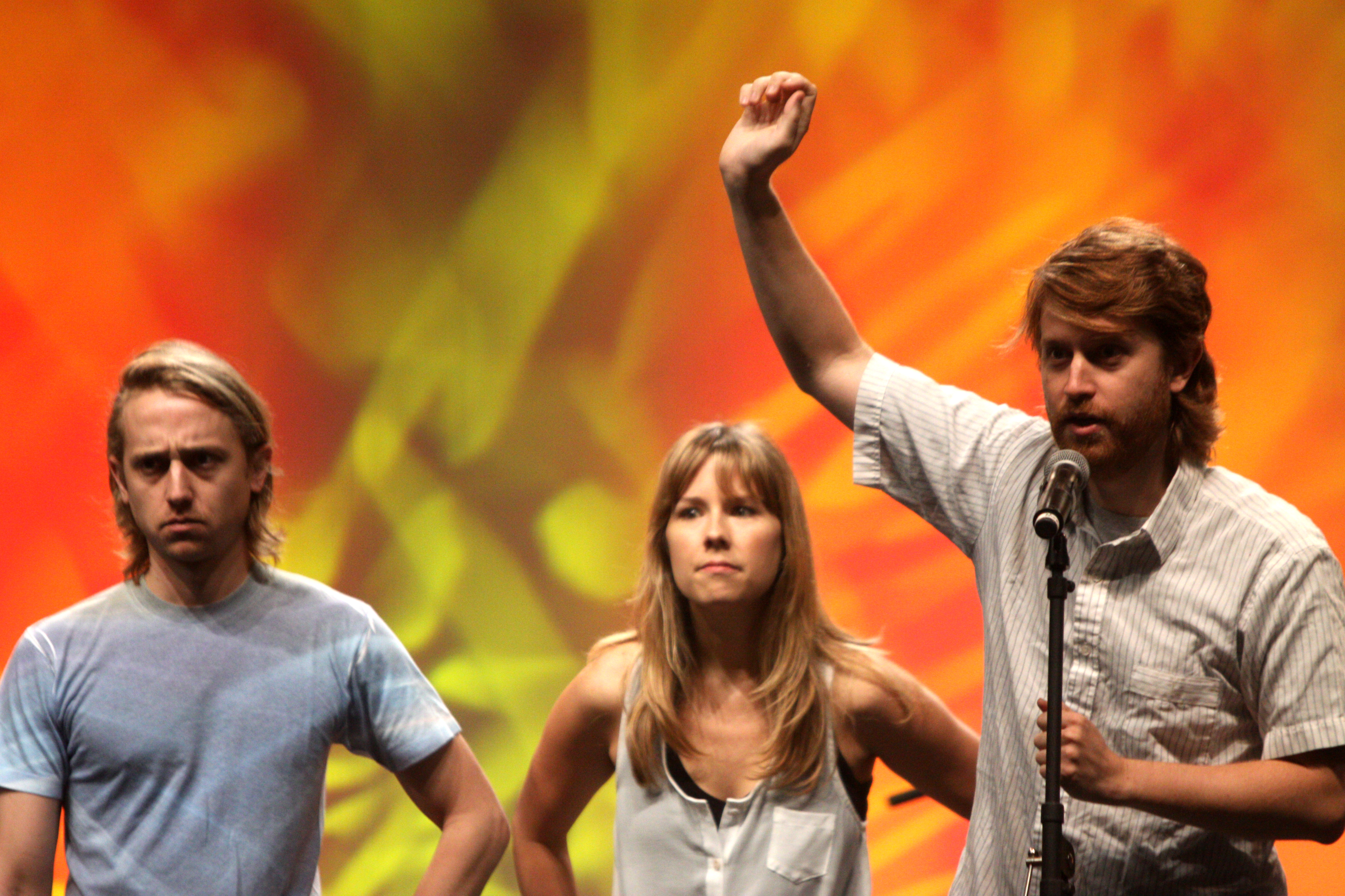 The Gregory Brothers speaking at VidCon 2012 at the Anaheim Convention Center in Anaheim, California.